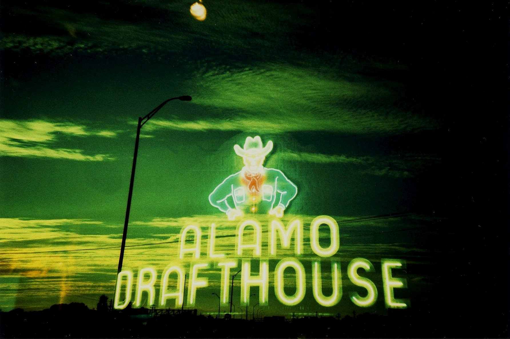 Fuji MS 100/1000 Cross Processed LC-A+RL A trip up to the Alamo Drafthouse Lake Creek for a showing of "Everyting is Terrible- The Movie". The Sunset on the way in. My Double Exposure Tips Part I My Double Exposure Tips Part II